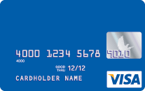 Visa dove hologram